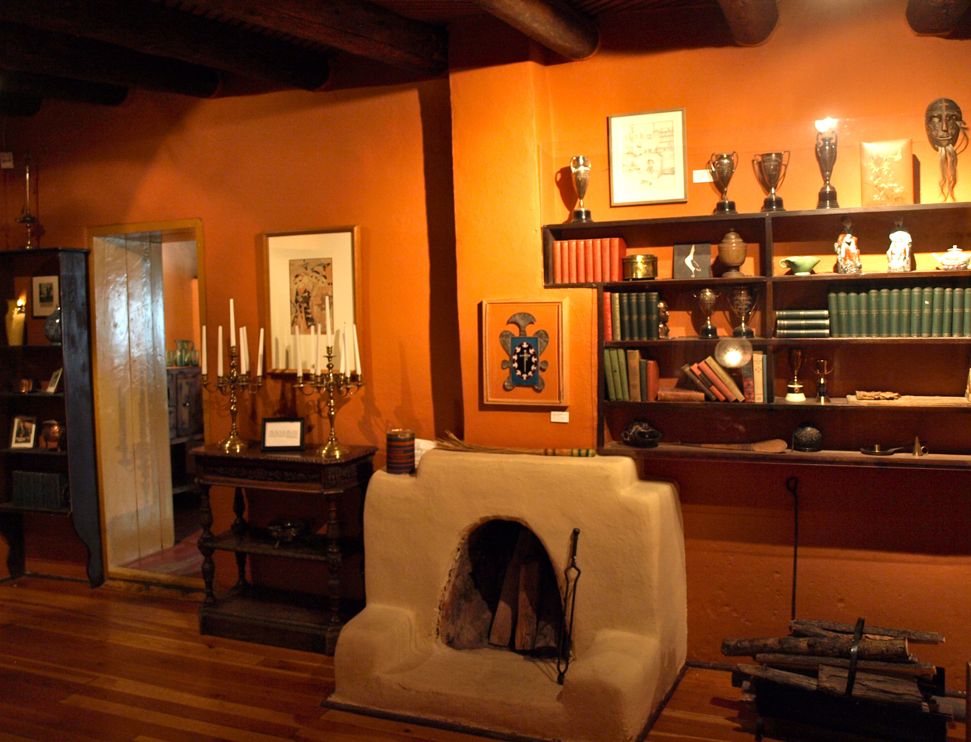 Library of E.L. Blumenschein House, Taos, NM. This section of the house was built in 1797 and was purchased by Blumenschein from Buck Denton in 1919.